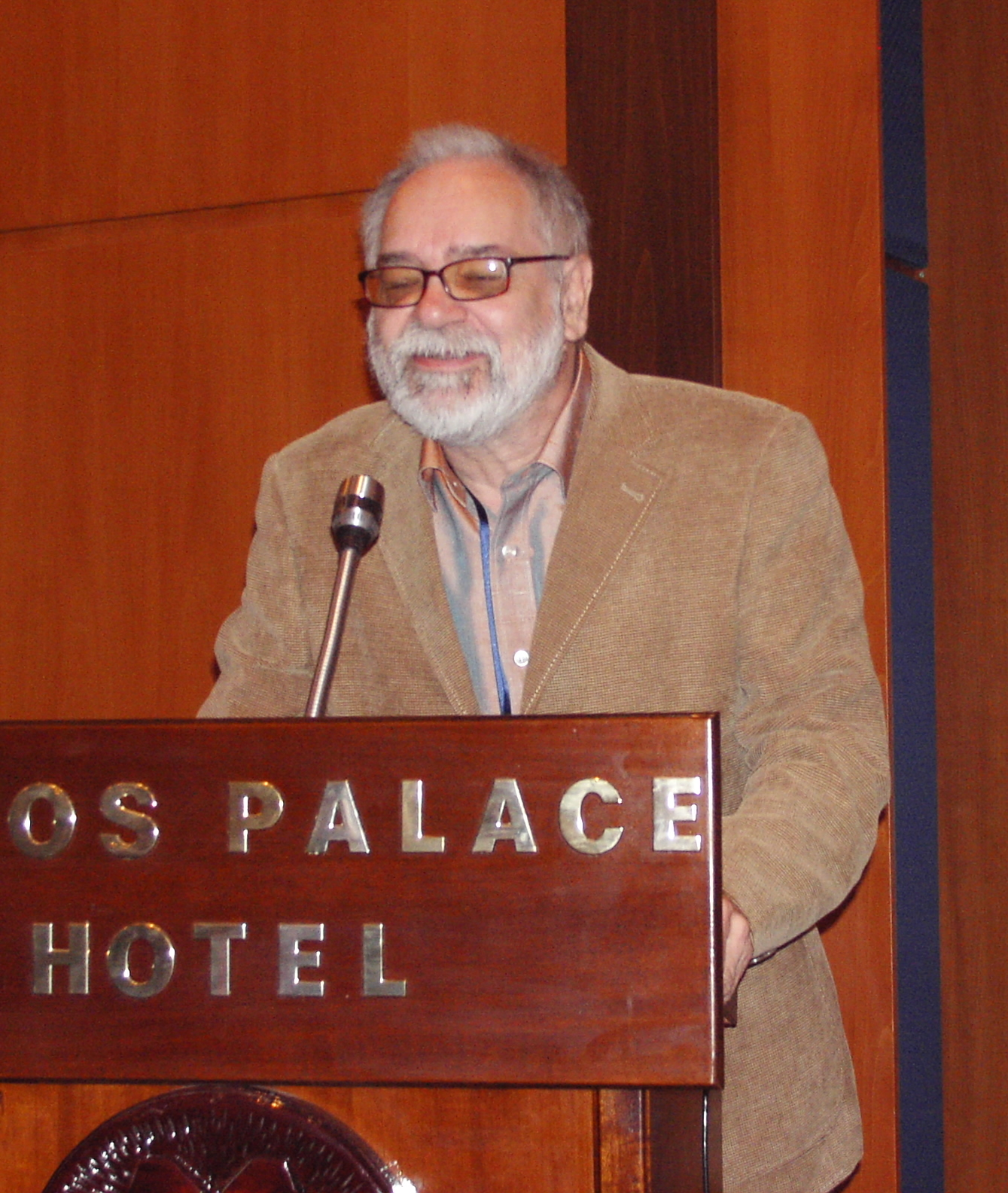 Boris Kutin (President ECU), 24th European Club Cup 2008 Halkidiki, Greece